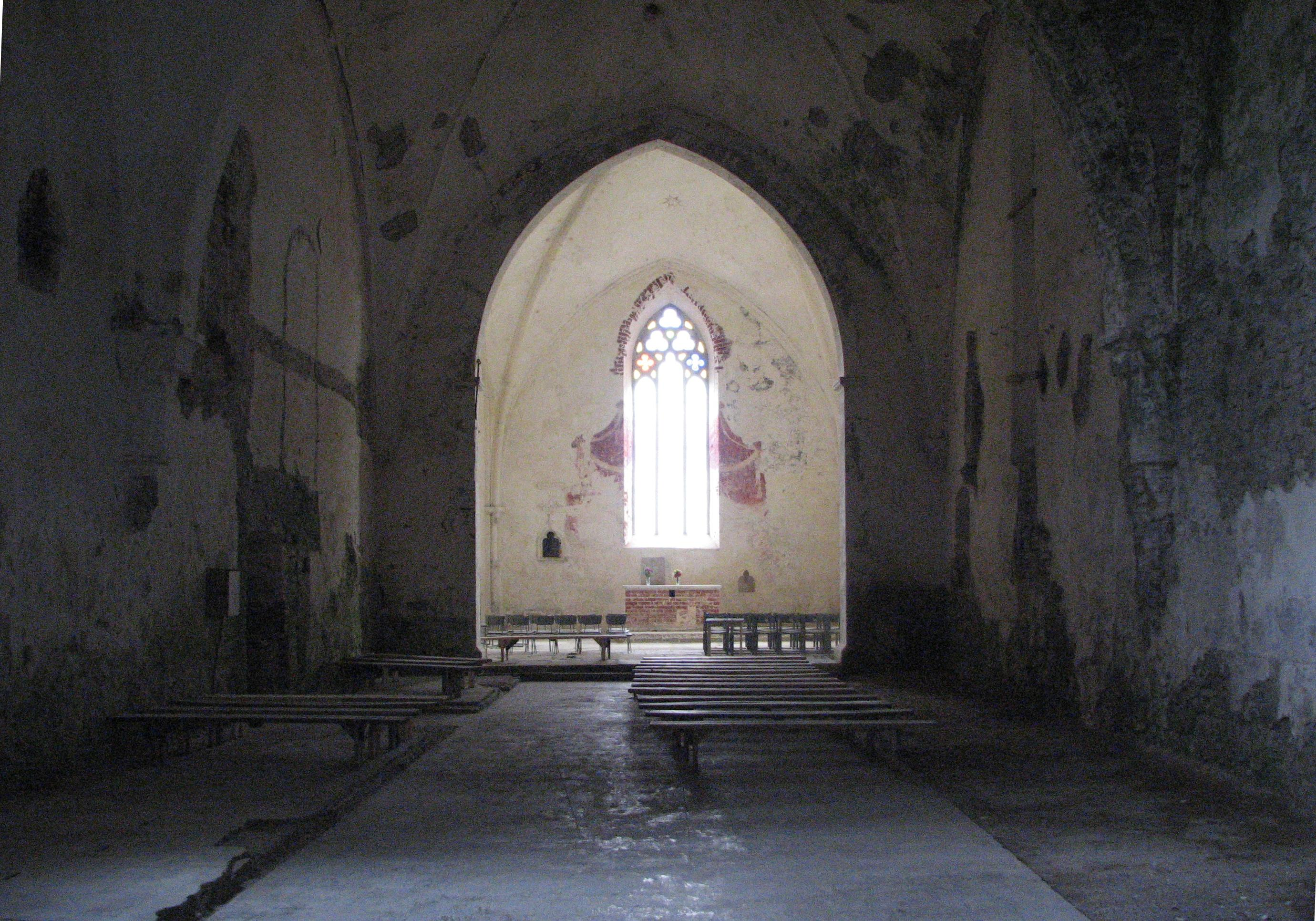 Pöide church, Estonia. Taken in the direction of the altar.